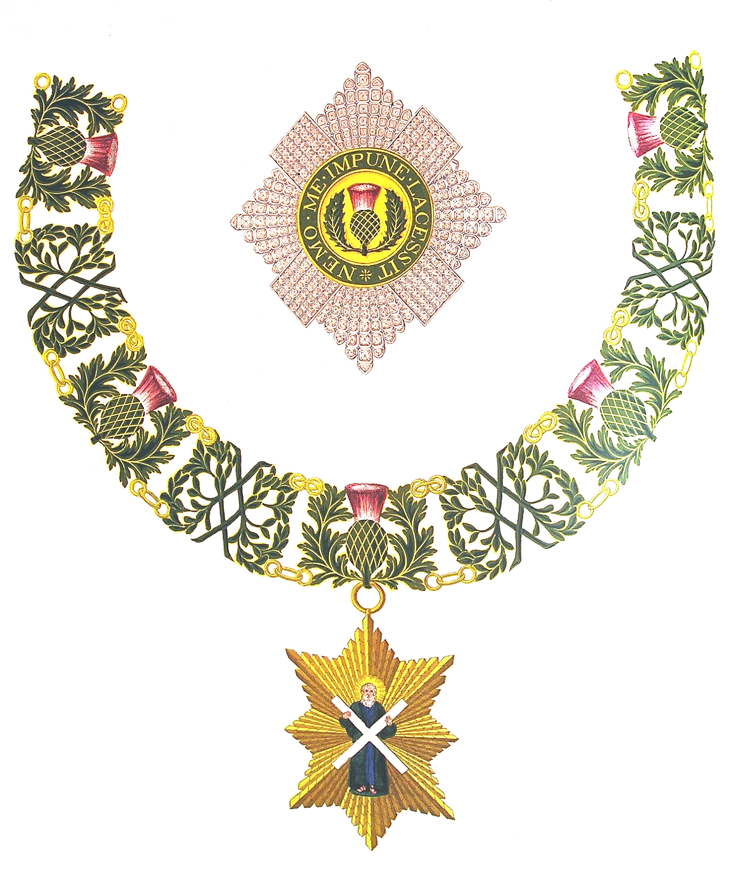 Insignia of a Knight of the Order of the Thistle